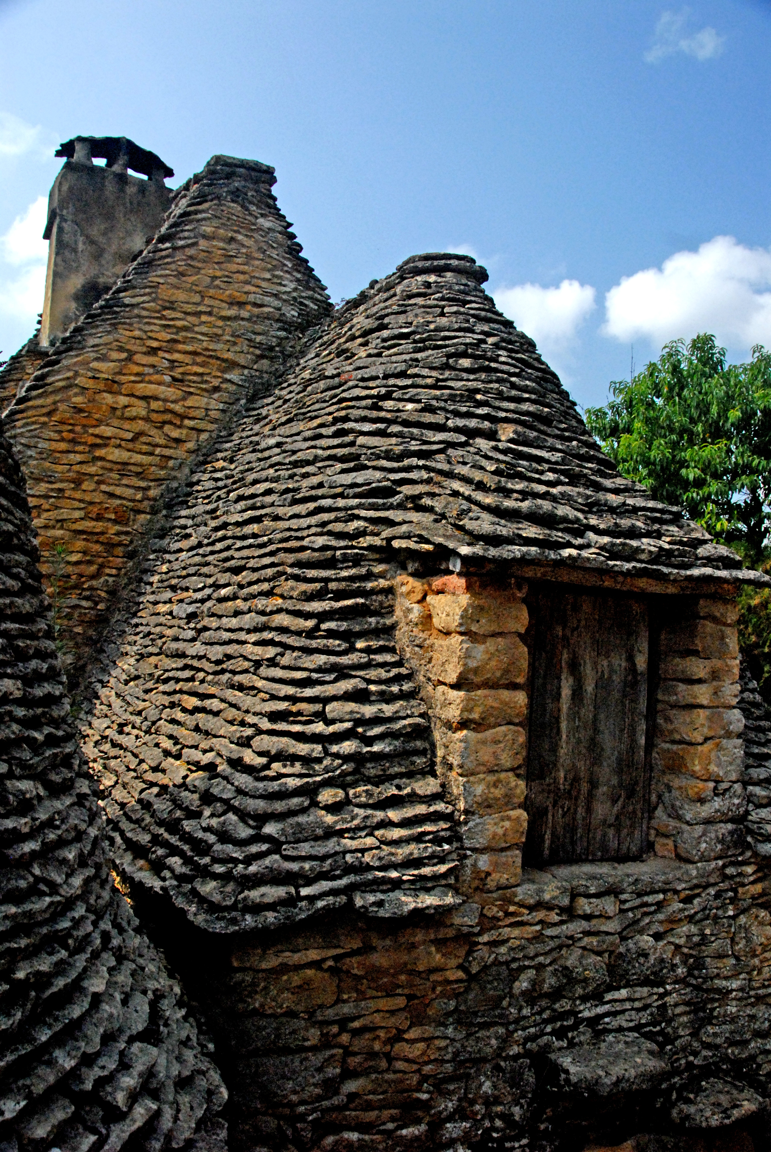 A dry stone cottage with a dormer and a stone roof at the cabanes du Breuil, Saint-André-d'Allas, Dordogne department, France.